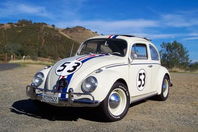 California based Herbie replica with correct details.